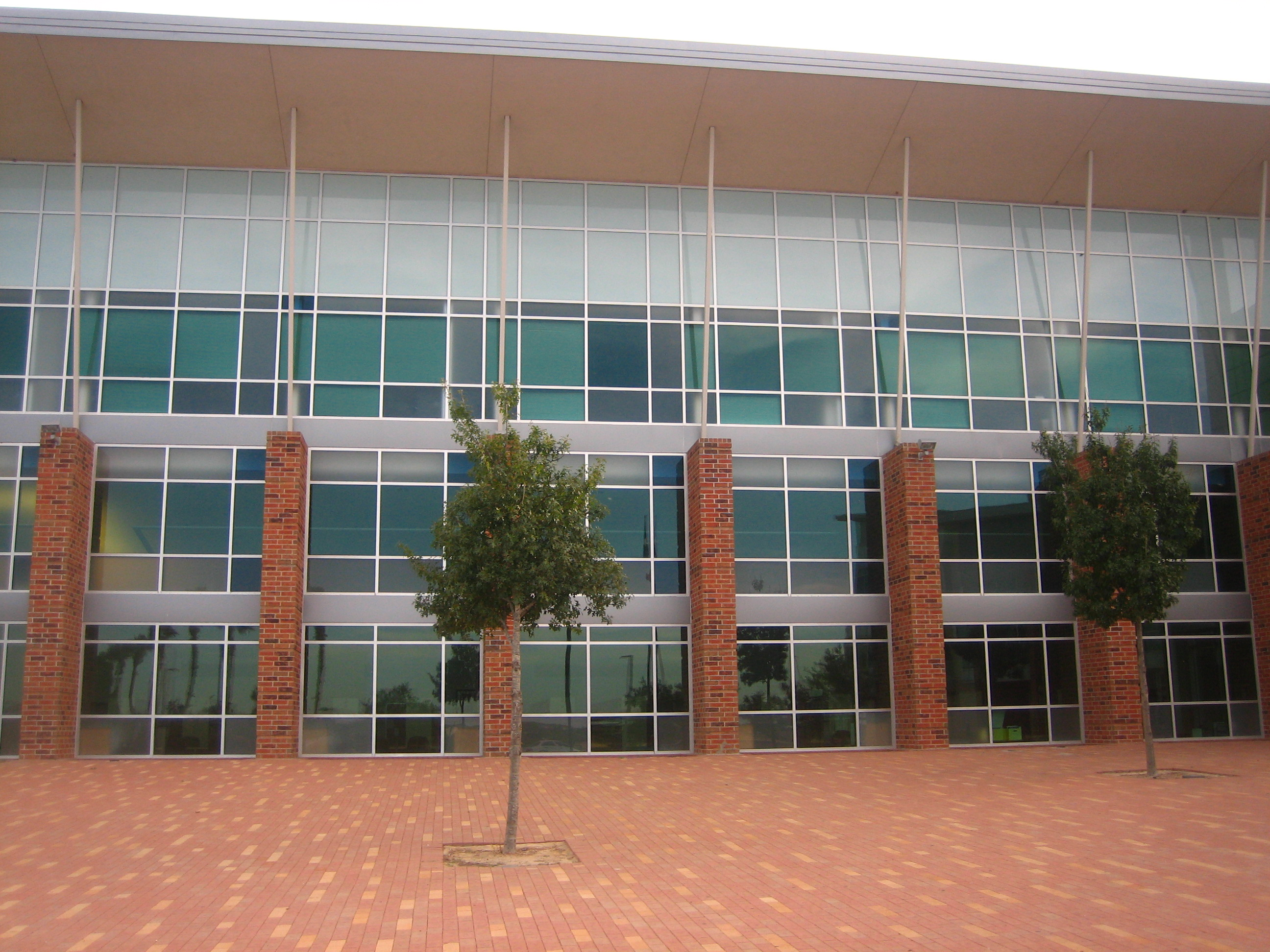 I took photo on Oct. 24, 2008.Billy Hathorn (talk) 01:19, 25 October 2008 (UTC)